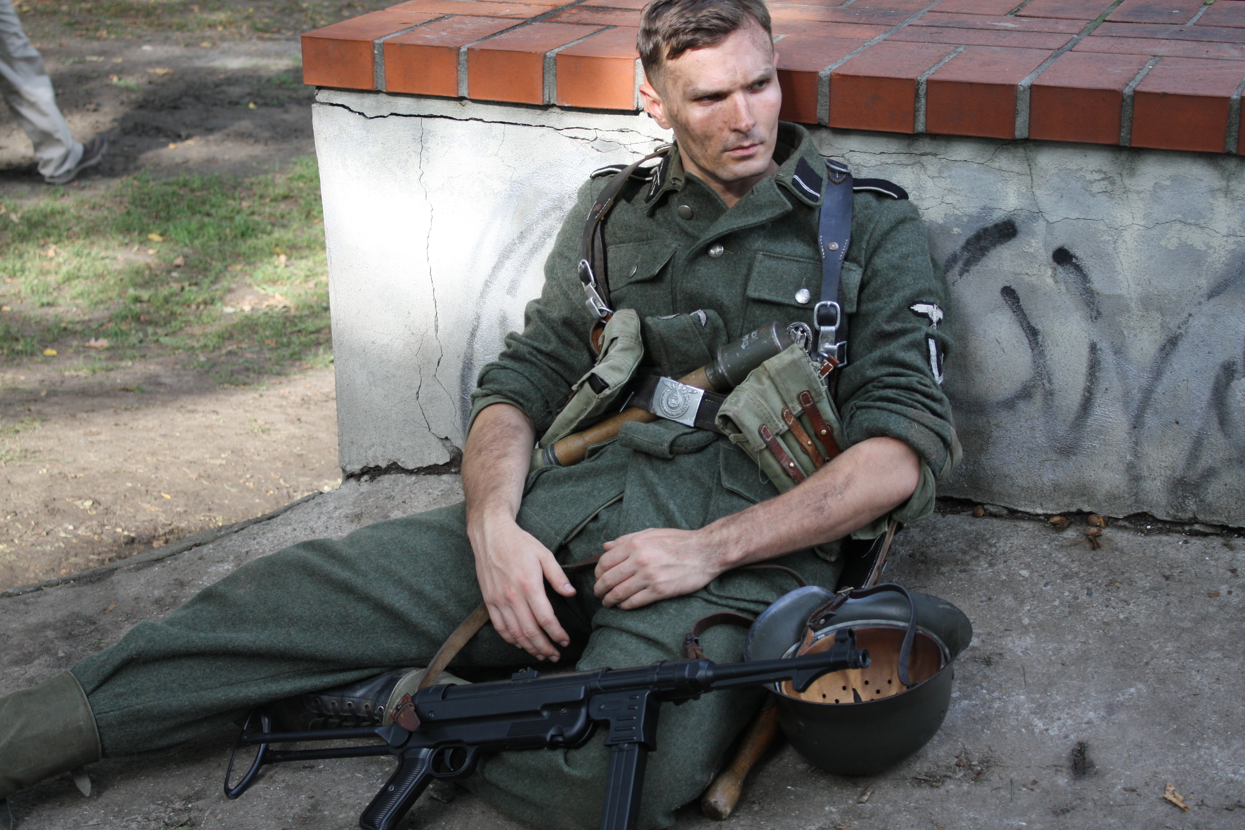 Warsaw Uprising reenactments - Mokotów'44